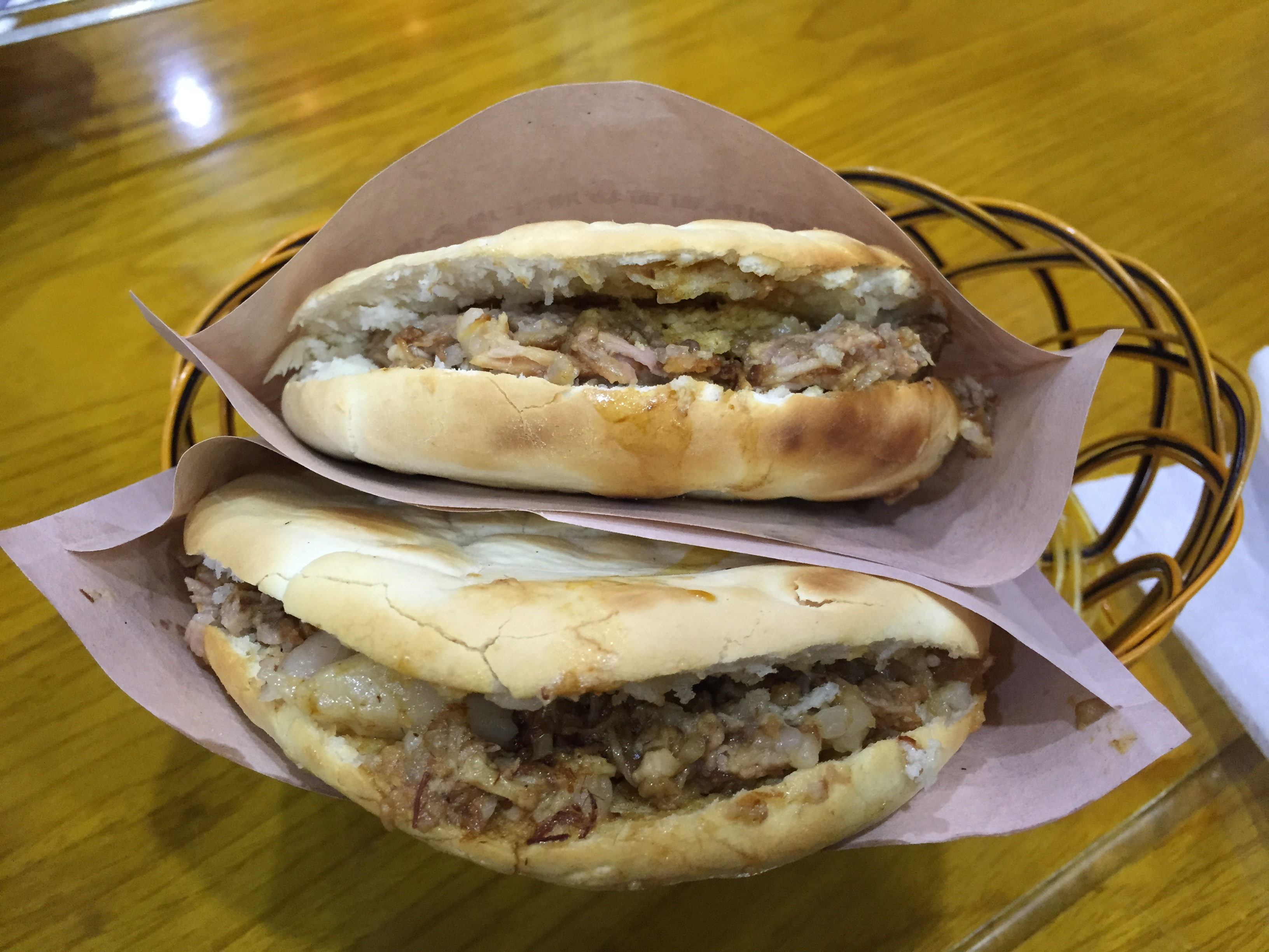 Sold in a Shaanxi-style restaurant in Beijing.